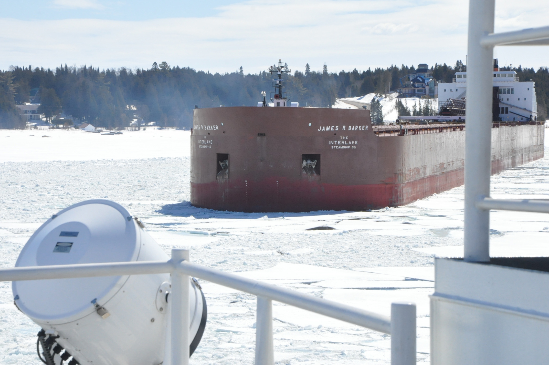 The Coast Guard Cutter Mackinaw, a 240-foot icebreaker homeported in Cheboygan, Mich., comes ahead and creates a track through the ice for the motor vessel James R. Barker to follow in the vicinity of the Johnson Point Turn in the lower St. Marys River, March 26, 2013. The Mackinaw was assisting the ship by breaking through brash ice that the ship had got stuck in.